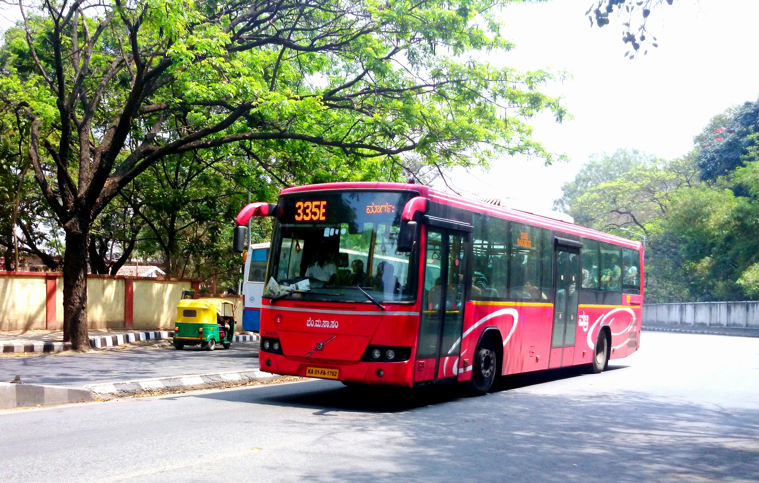 Public bus transportation, one of the mass transit systems in Karnataka India